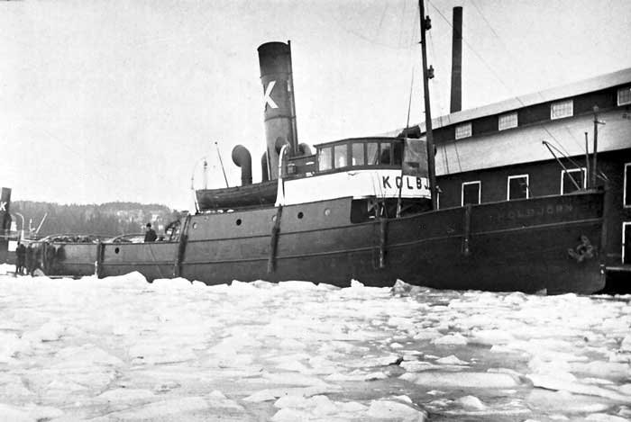 The Swedish tugboat "Kolbjörn"